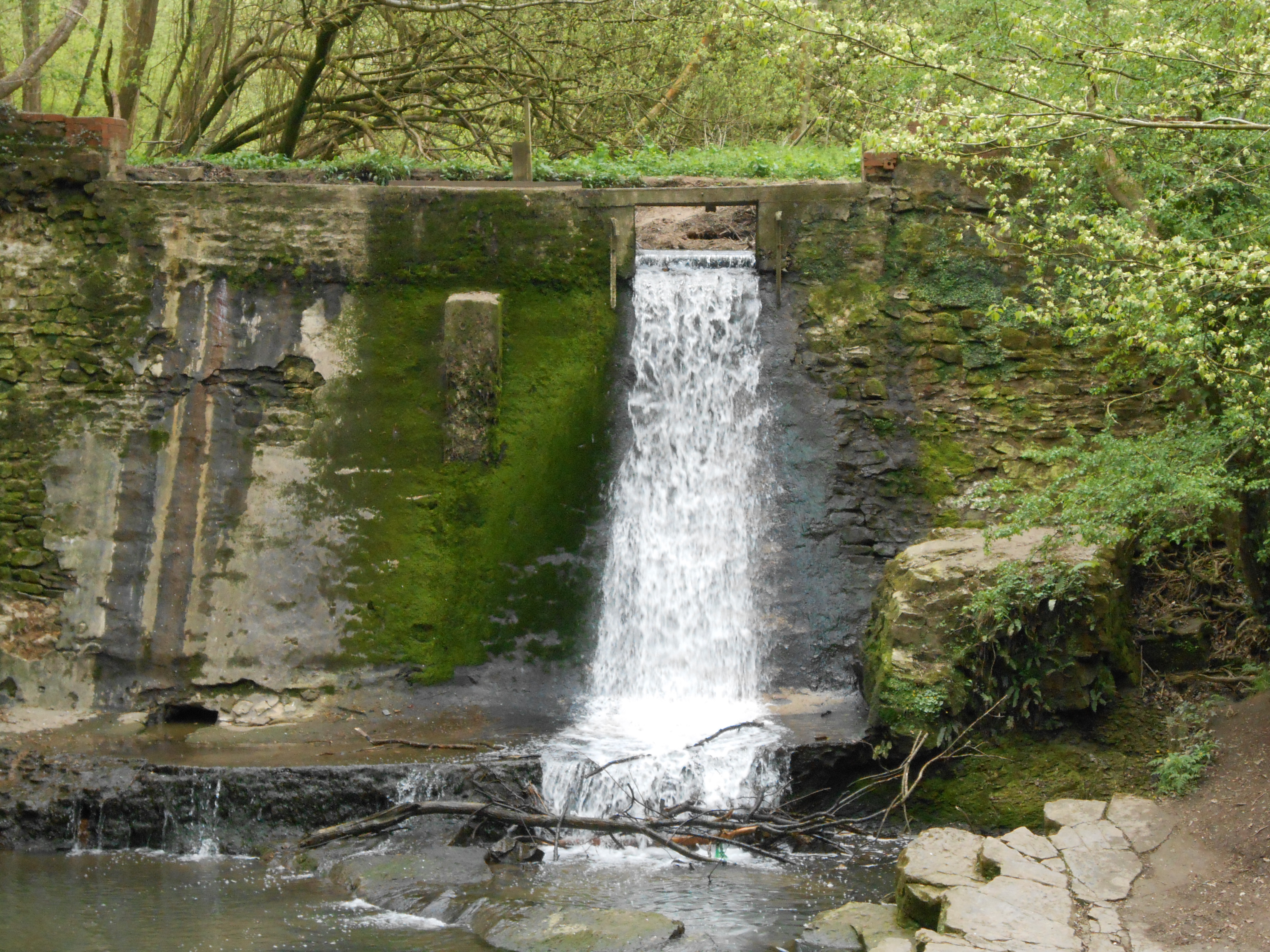 Waterfall in Wepre Park, Flintshire, Wales.